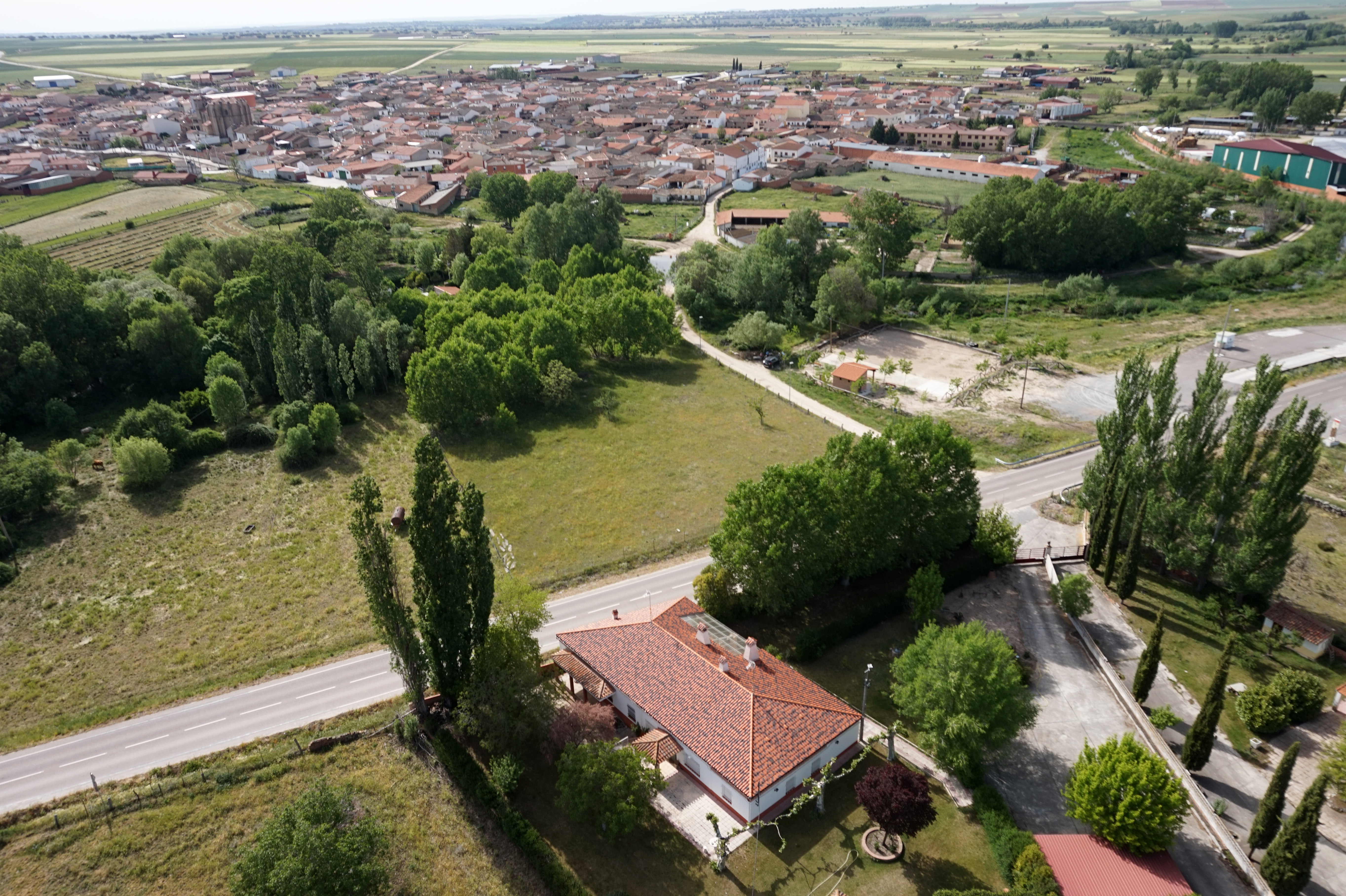 Aerial view of Alaraz (Salamanca, Spain). Photo taken by Smart Drone with a drone.